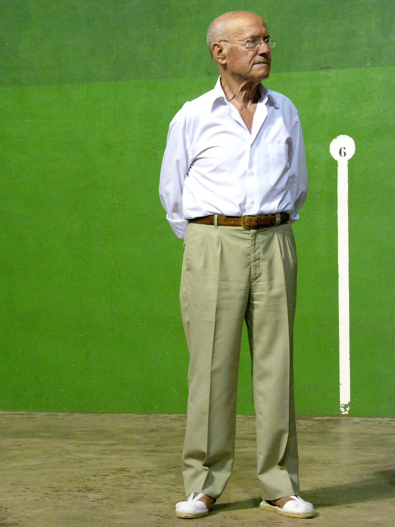 Alginet's own #1 pilotari Juliet, aged 84, at a living homage in his hometown